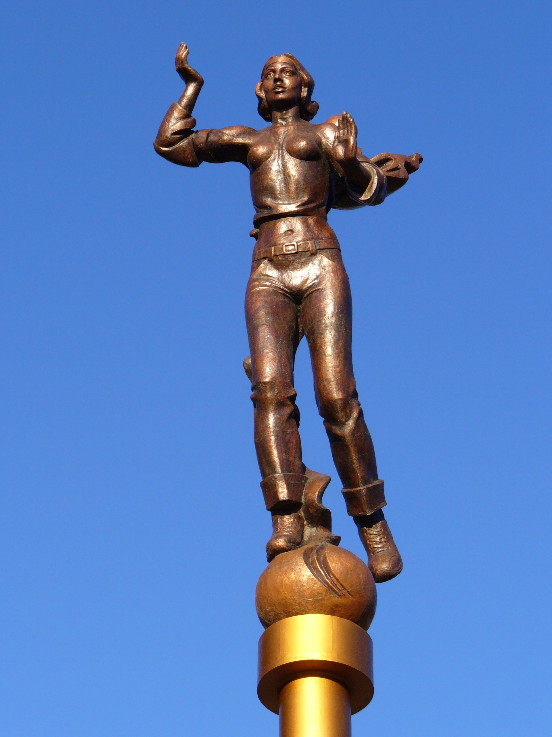 Monument of Ukrainian Song in Vinnytsia. Sculptor Vladimir Smarovoz. The first name of this monument was "Monument of the Orange Revolution". A girl on the orange is an allegorical symbol of the 2004-2005 revolution in Ukraine